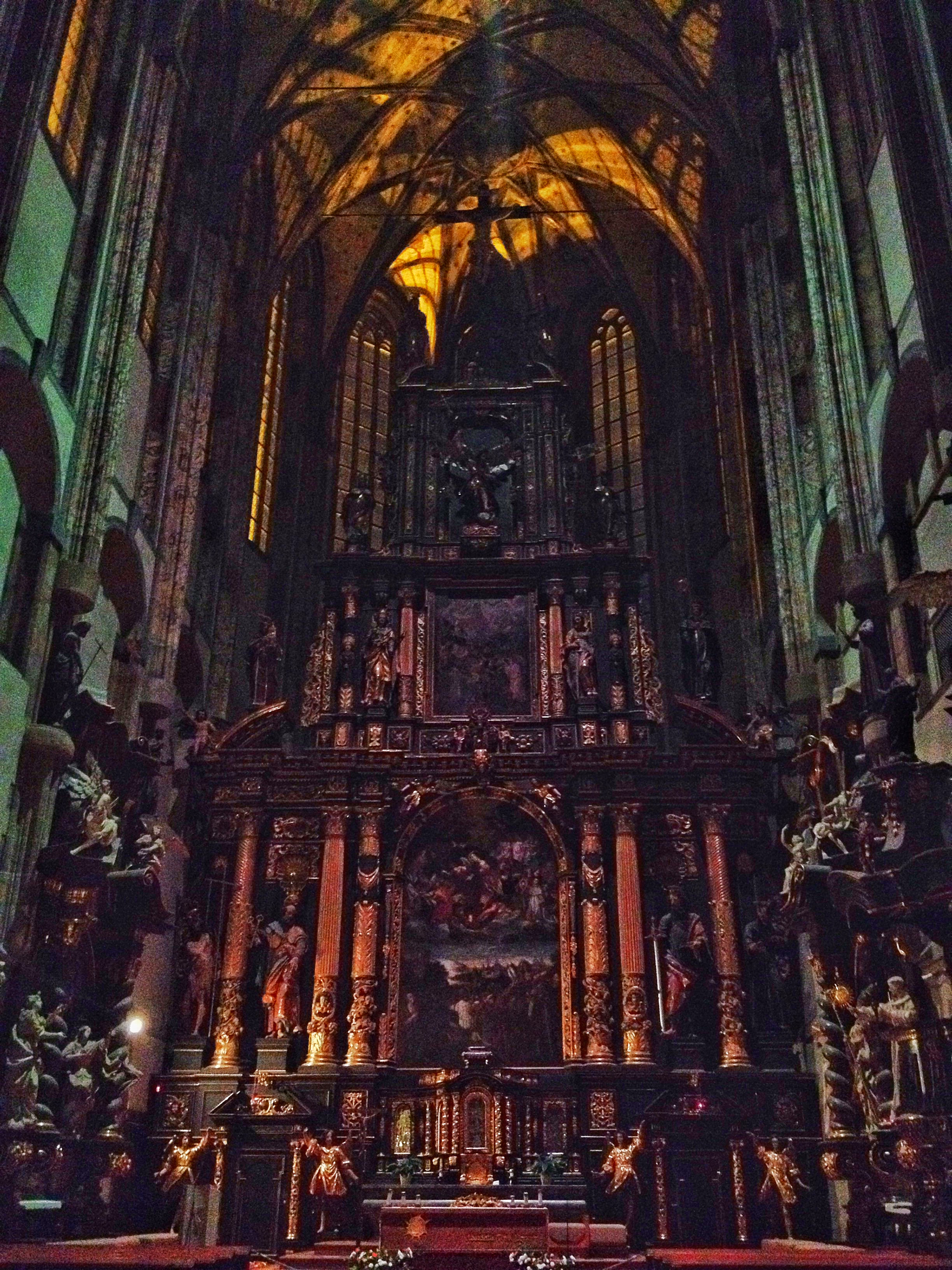 The Church of Our Lady of the Snows in Prague at night.